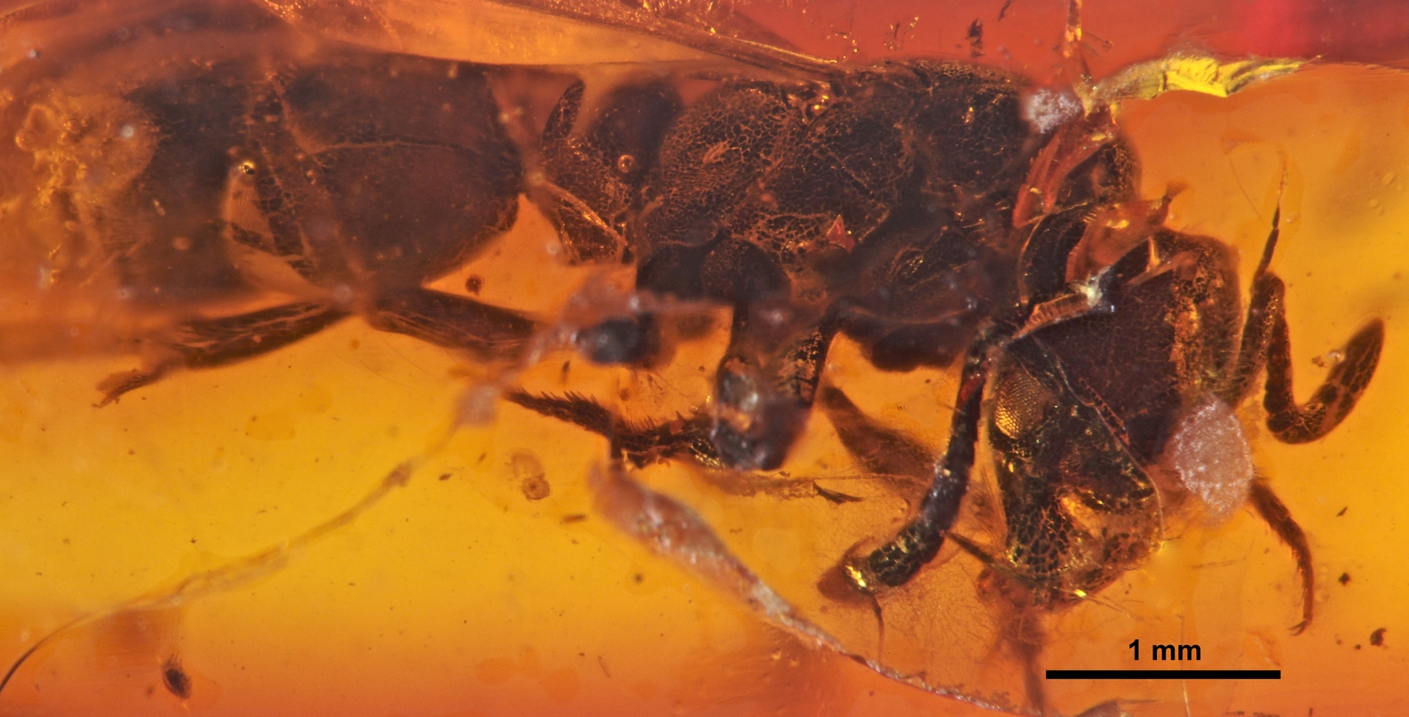 Profile view of the Pachycondyla succinea neotype queen. Specimen GZG-BST04677; Geowissenschaftliches Museum der Universität Göttingen, Göttingen,Germany Baltic Amber, Middle Eocene; Samland Peninsula?, Baltic Region, Europe.